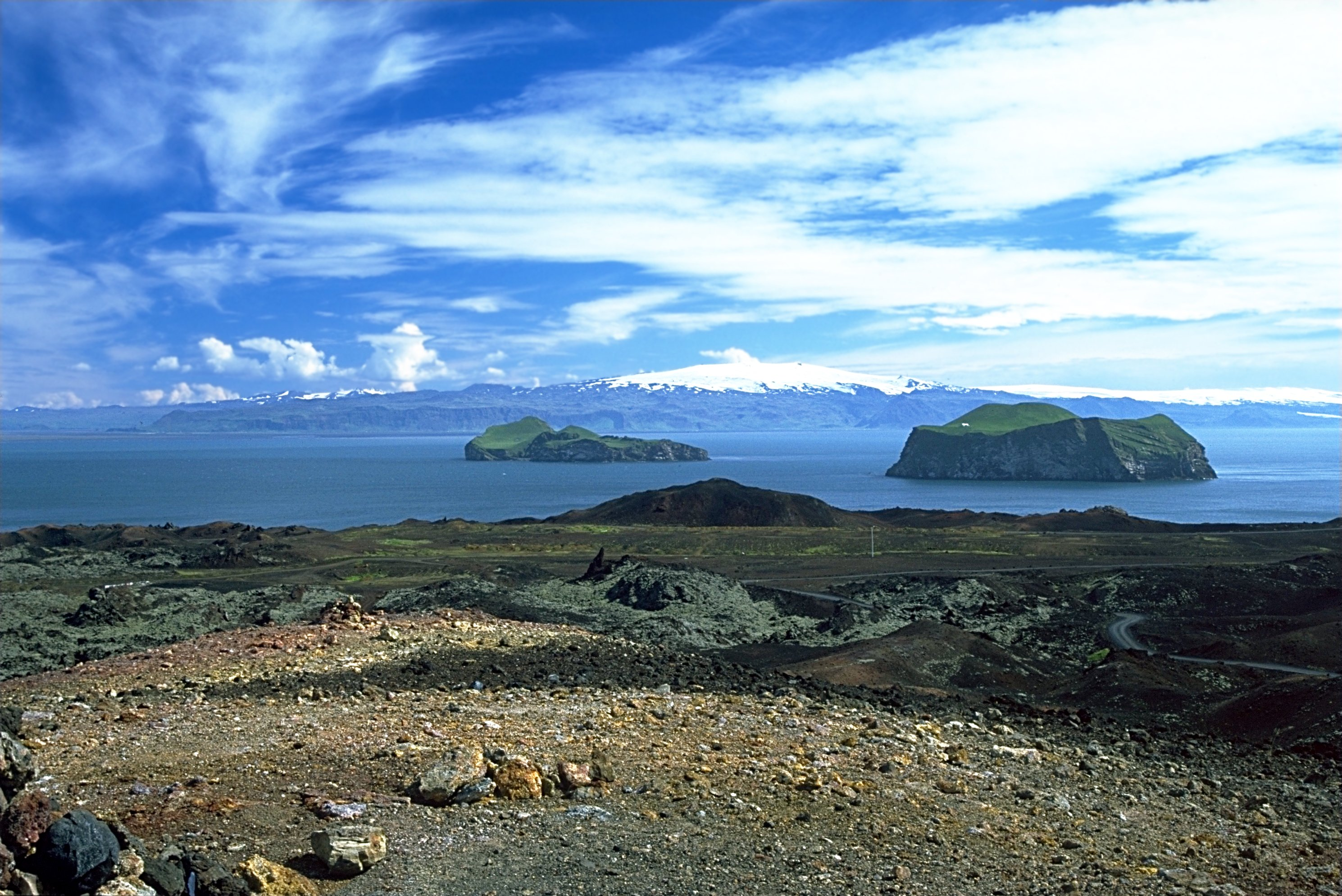 View from Heimaey to Eyjafjallajökull, Iceland Photo was taken using the following technique: Film: Fuji Velvia Lens: 4/35-70 Filter: polarizer Body: Minolta Dynax 7 Support: Manfrotto 190B Image with Information in English Bild mit Informationen auf Deutsch